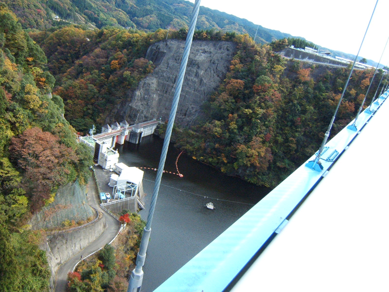 View from Ryujin bridge, and Ryujin Dam. Hitachiōta, Ibaraki, Japan.